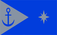 Flag of Põhja-Tallinn, Estonia